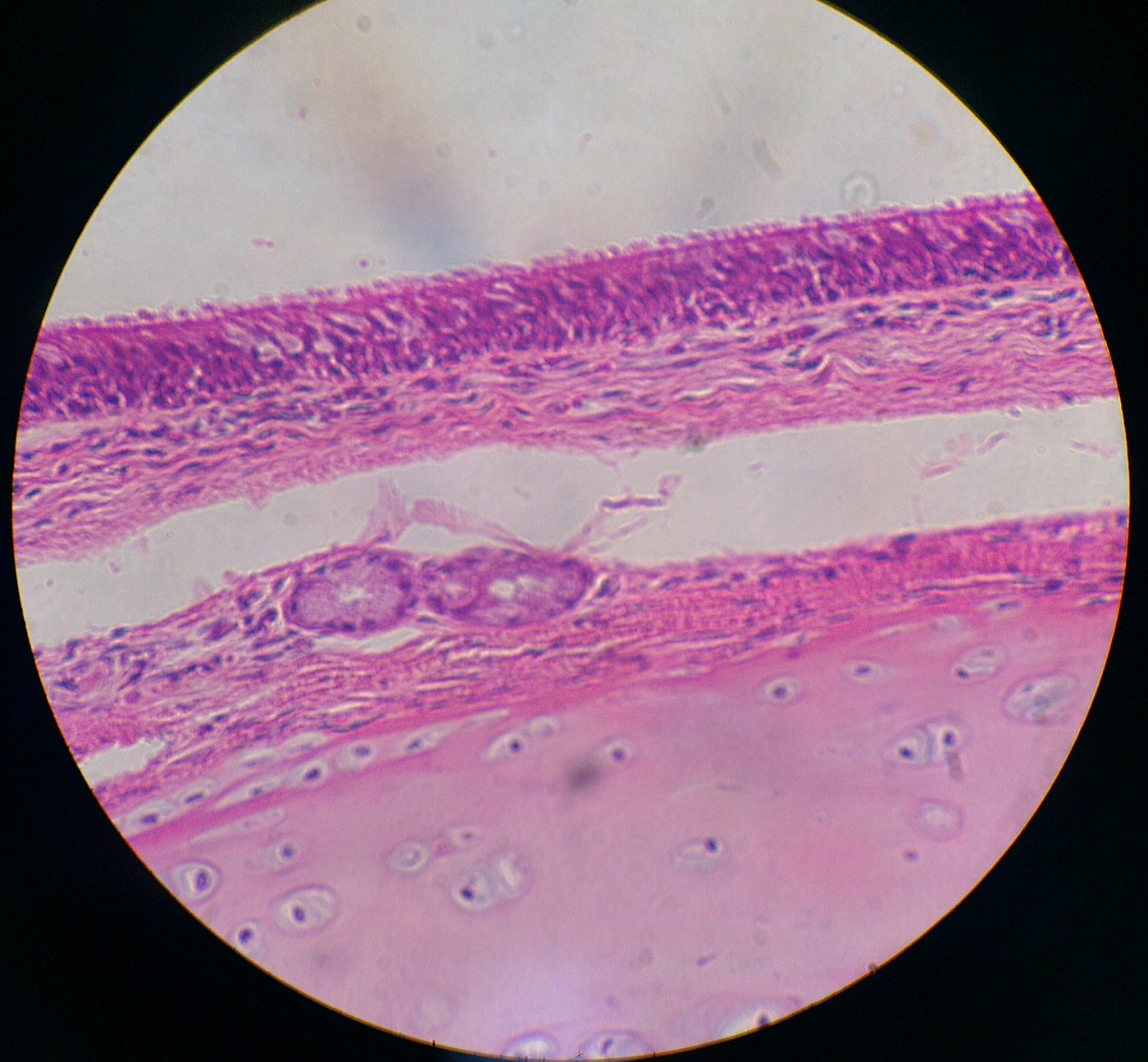 Pseudostratified ciliated columnar epithelium sample on a histology slide magnified at 400x. Origin: human